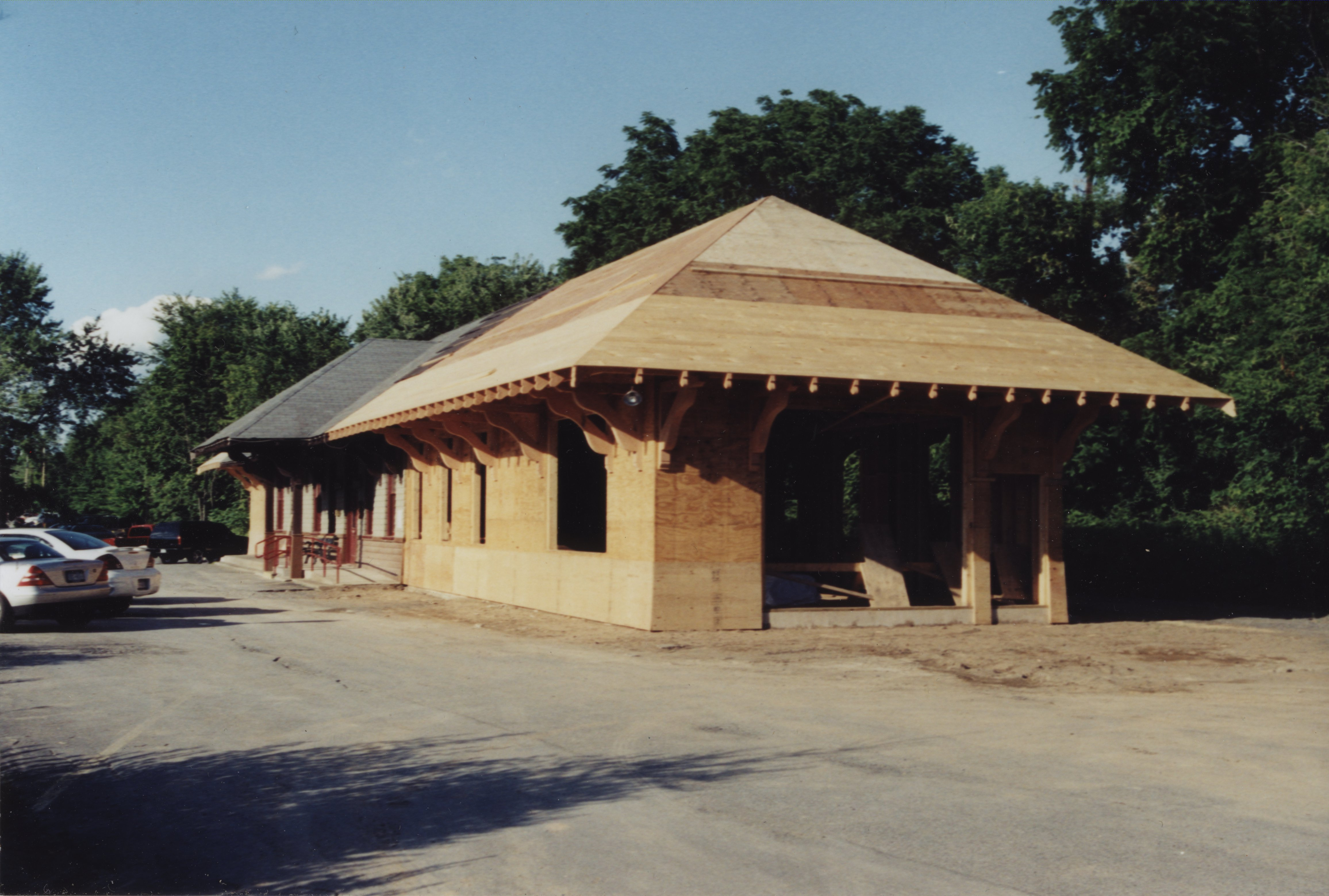 An addition to the former railroad station in New Paltz, New York, after it had been converted to a restaurant.